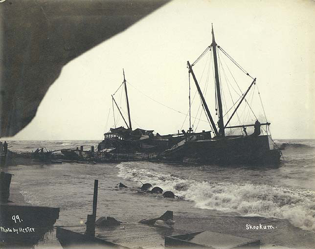 Wrecked possibly as a result of the storm damage . Caption on image: "Skookum/Photo by Hester" No. 99 appears in lower left hand corner of image Subjects (LCTGM): Ships--Alaska--Nome; Storm--Alaska--Nome; Shipwrecks--Alaska--Nome Subjects (LCSH): Skookum (Ship)